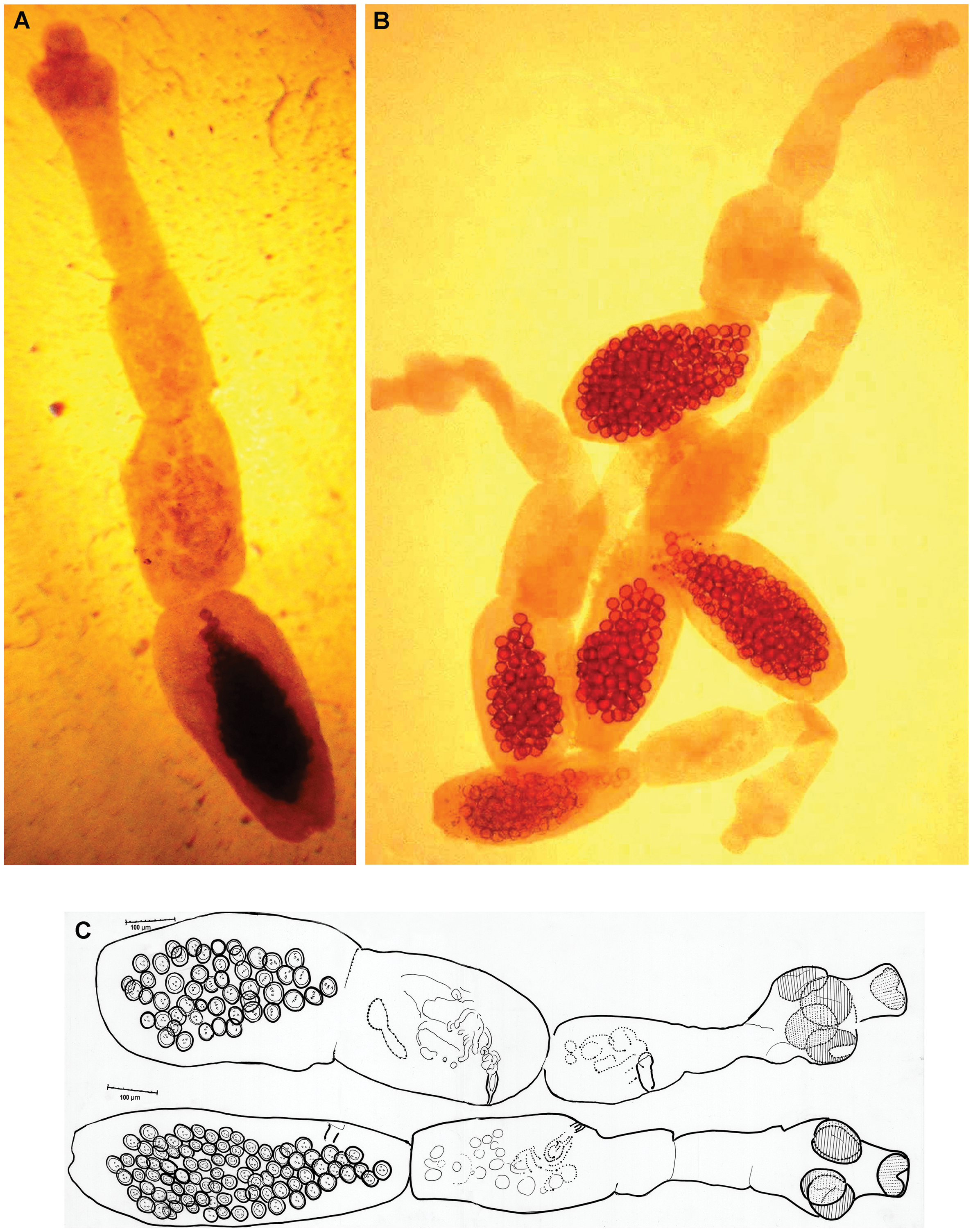 Echinococcus multilocularis isolated from a jackal in Razavi Khorasan Province. A) in normal saline solution (×100); B) with acetic acid alum carmine staining (×40); C) Drawings of E. multilocularis (×400) (made with the aid of Camera Lucida).